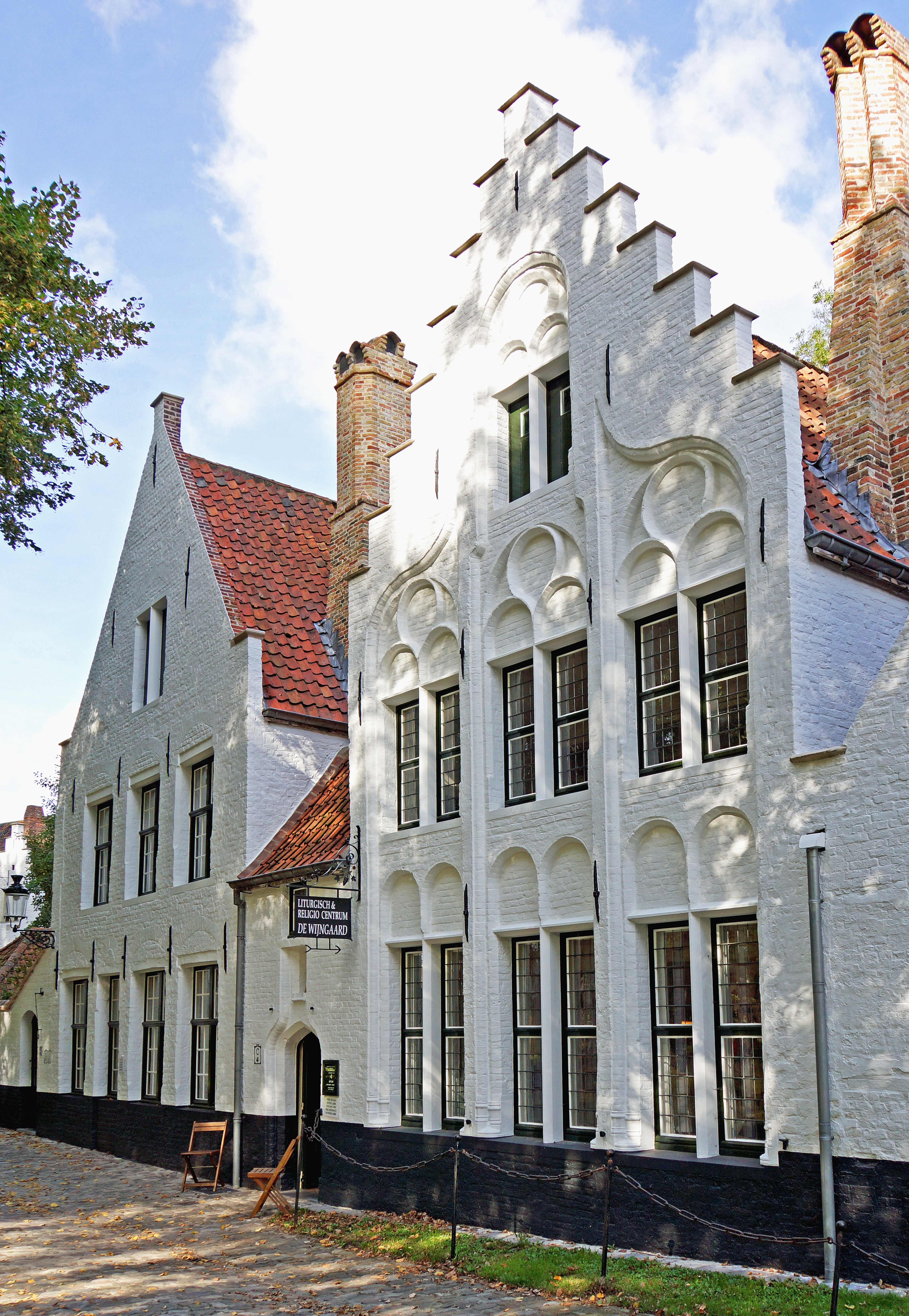 PLEASE, NO invitations or self promotions, THEY WILL BE DELETED. My photos are FREE to use, just give me credit and it would be nice if you let me know, thanks. The Beguinage is a group of houses around a little garden covered with large poplar trees. The Beguinage of Bruges was founded in 1245 by the Countess of Flanders, Margaretha of Constantinopel, daughter of Count Baldwin who conquered Constantinopel (now Istanbul) during the crusades. In 1299, Philip the beautiful of France, placed the Beguinage under his own rule, thereby withdrawing it from the influence of the town magistrate. The entrance gate bears the date 1776. A lot of houses, however, are much older than that. Most date from the 17th and 18th century. Some houses were built in the 19th century in neo-gothic style. In the southern part is a little dead end street where still some houses of the 15th-16th century can be found. The largest and most impressive house is situated in the left corner behind the garden. It was here that the 'grand-dame' lived. It was she who ruled over the beguinage.